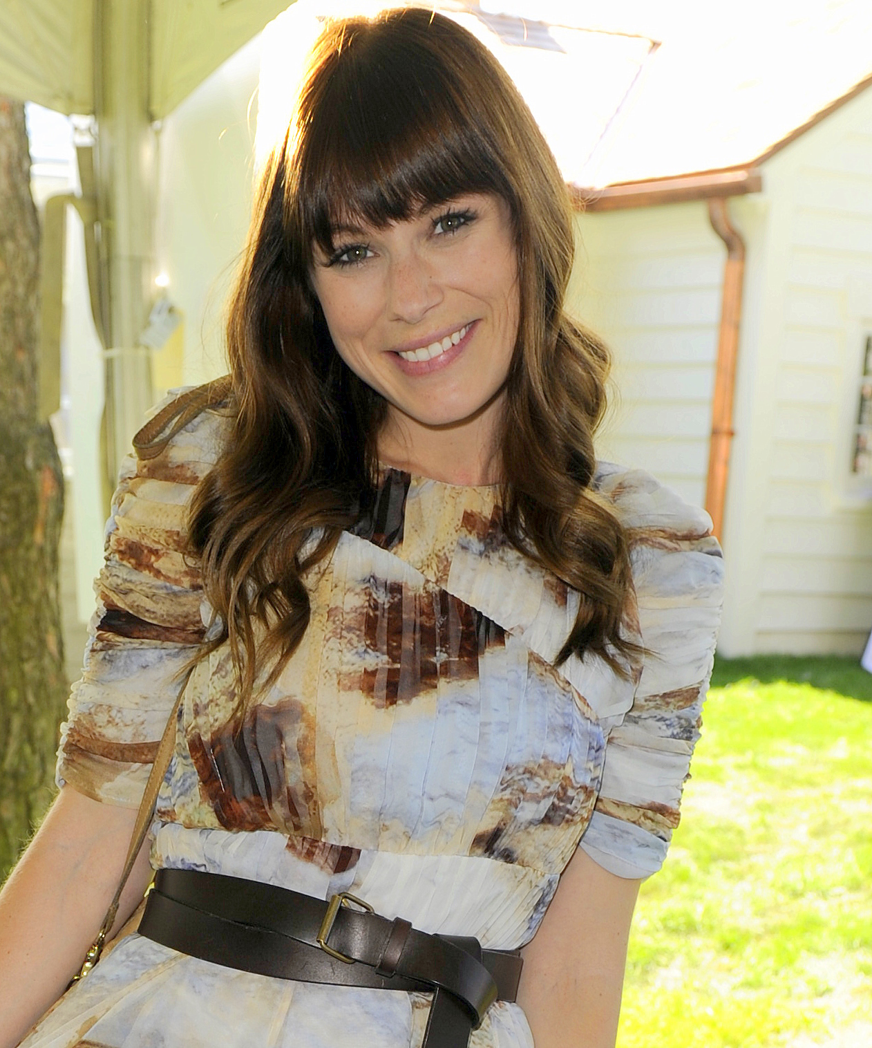 Meghan Heffern at the Canadian Film Centre (CFC) Annual BBQ 2011.